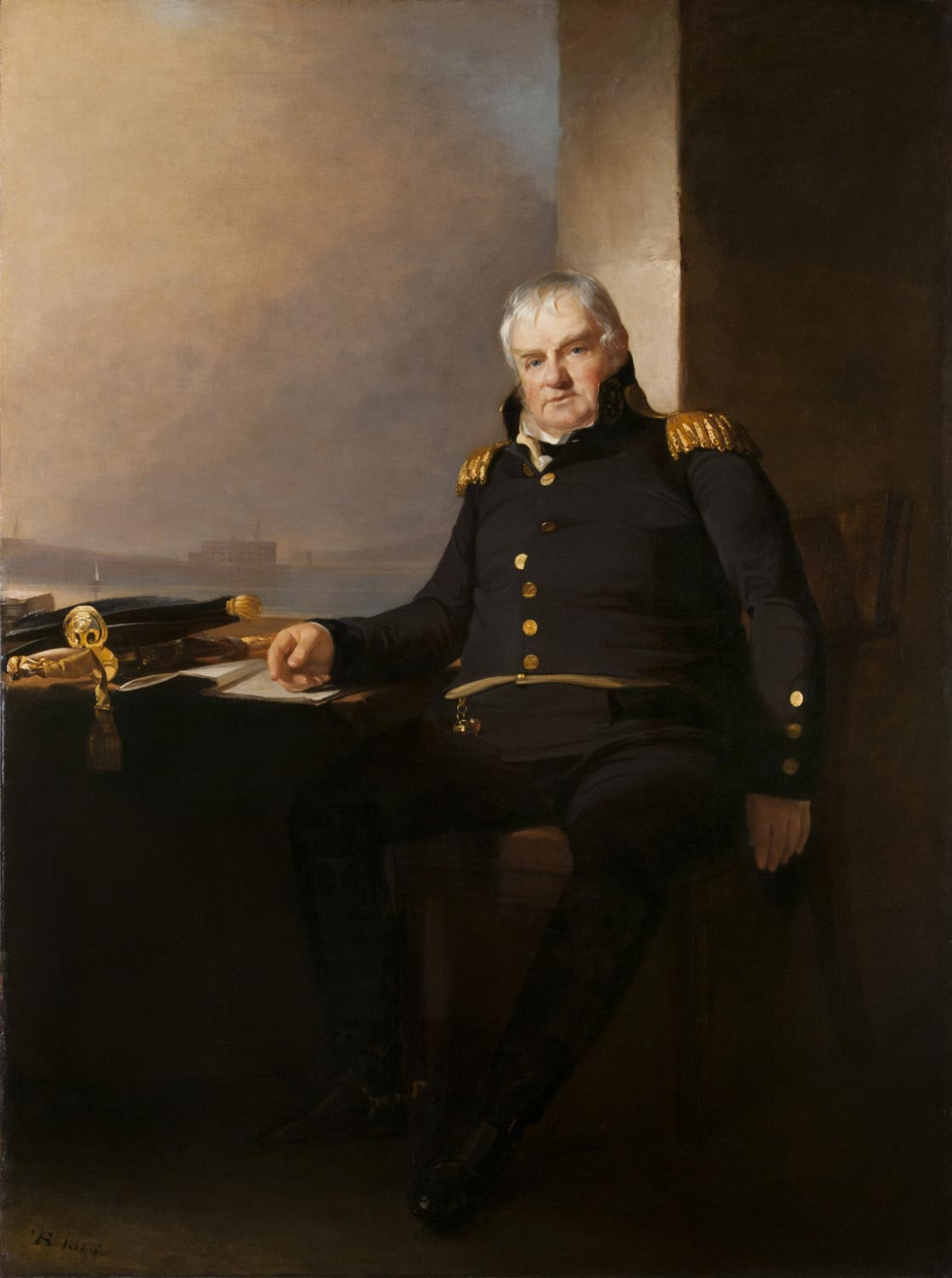 eography: Made in United States, North and Central America Date: 1815 Medium: Oil on canvas Dimensions: 6 feet 9 inches x 58 inches (205.7 x 147.3 cm) Framed: 7 feet 5 1/2 inches × 69 1/2 inches × 3 inches (227.3 × 176.5 × 7.6 cm) Curatorial Department: American Art Gallery 207, American Art, second floor Accession Number: 1964-111-1 Credit Line: Gift of Alexander Biddle, 1964